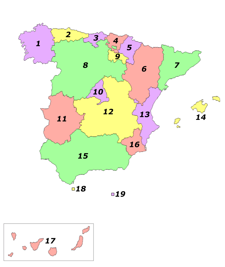 Autonomous communities of Spain